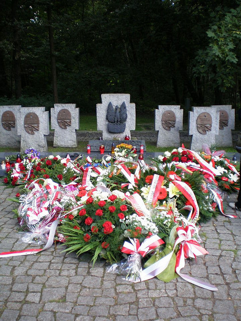 The place of the early fights of WW II. At 4.45 AM on 1st of September 1939 German battleship Schleswig-Holstein began to fire upon Westerplatte. These were arguably the first shots of WW II. Flowers with Polish and German flags laid today before the dawn at the exact anniversary of the Nazi-German assault on Poland. In the middle is the grave of Mjr. Henryk Sucharski - commander in the first few days of August 1939. Due to his nervous breakdown, the command was taken by Cpt. Franciszek Dąbrowski. Sadly, bronze plates on the monuments were stolen many times. Today they are made of some kind of plastic that imitate metal.